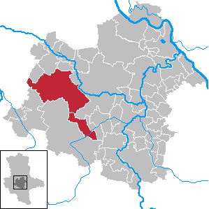 VG Stadt Hecklingen in Saxony-Anhalt - District Salzlandkreis